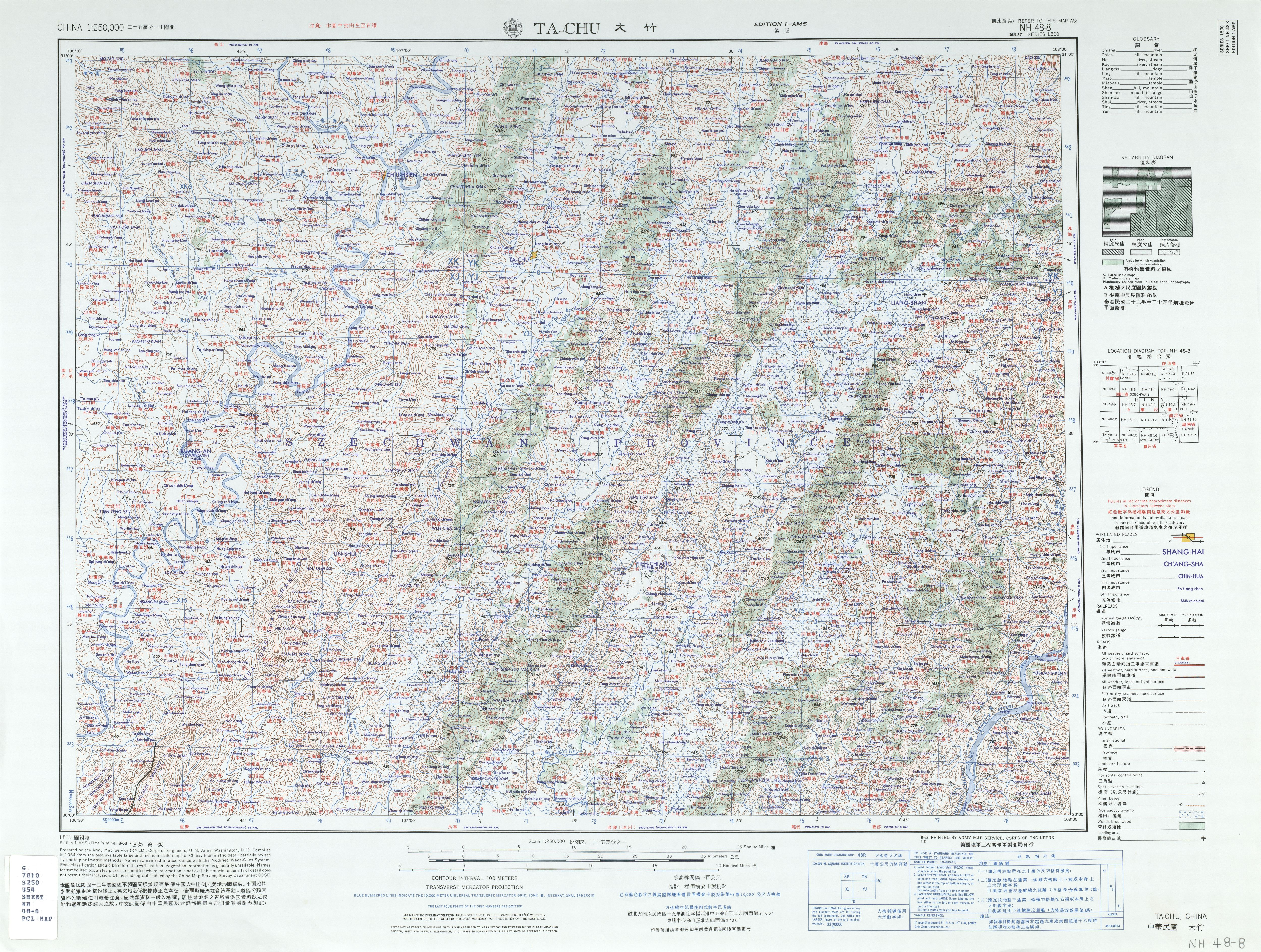 China AMS Topographic Maps